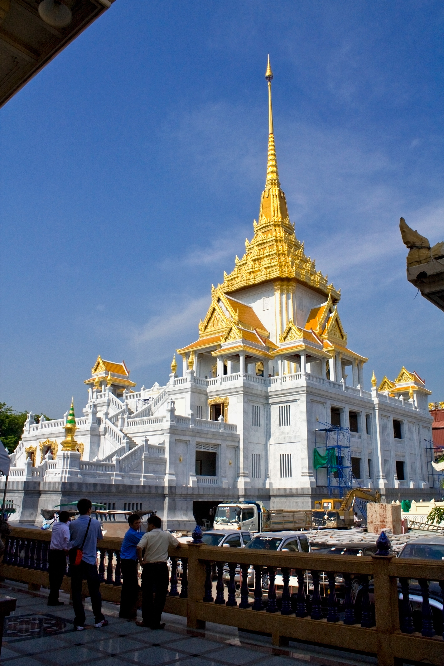 Phra Maha Mondop, Wat Traimit, Samphan Thawong district, Bangkok